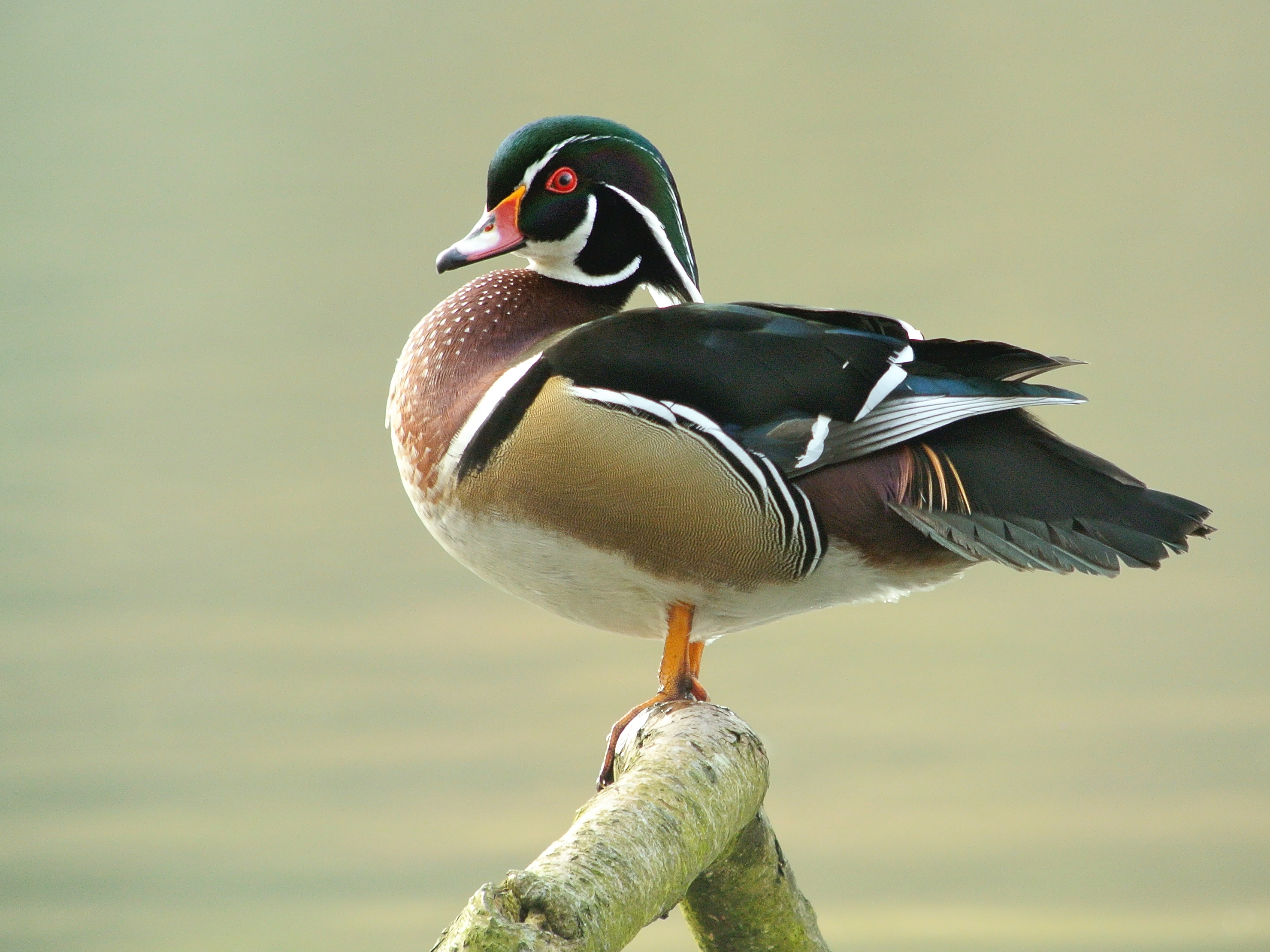 The Wood Duck (Aix sponsa) is an American species that is slowly becoming established in urban parks of Western Europe. Like its Asian cousin, the Mandarin Duck (Aix galericulata), it heavily depends on artificial nest boxes for breeding. Digiscoping with Swarovski ATM 80 HD 30 X, Nikon 1V1 + 10-30 mm lens (Adapter DCB)